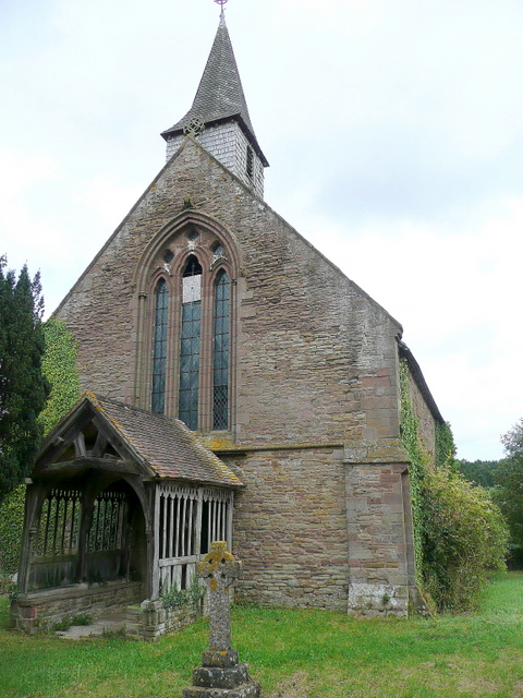 St. John the Baptist's church, Aconbury View of the west end of this disused church. The timber porch dates back some 600 years.